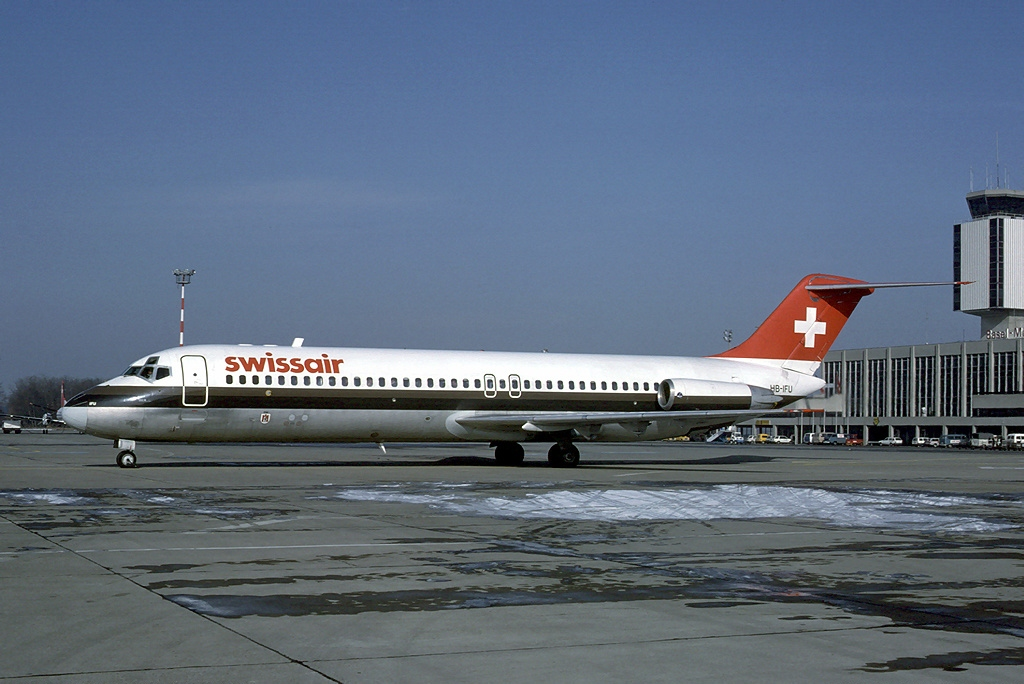 "Chur"